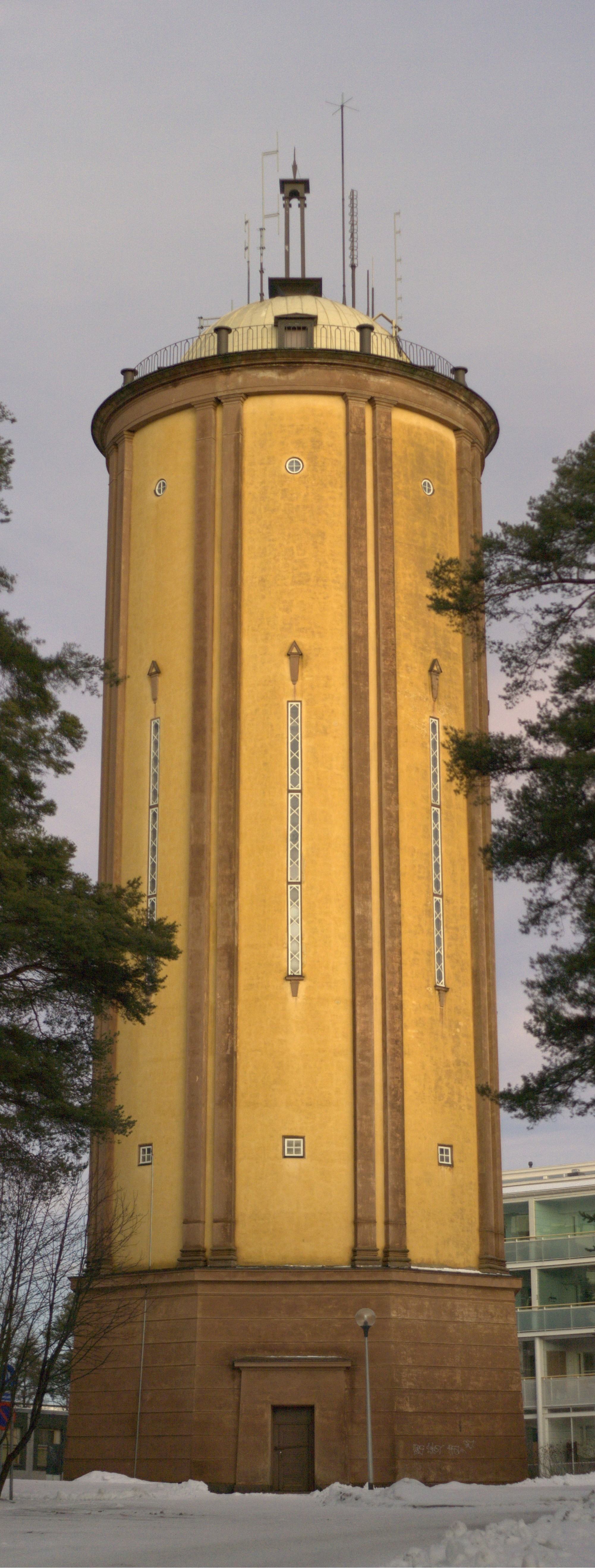 Old water tower of Intiö in Oulu, Finland. This building is not in use as an water tower, and is one of the visible landmarks in the area. Design by J.S. Sirén.